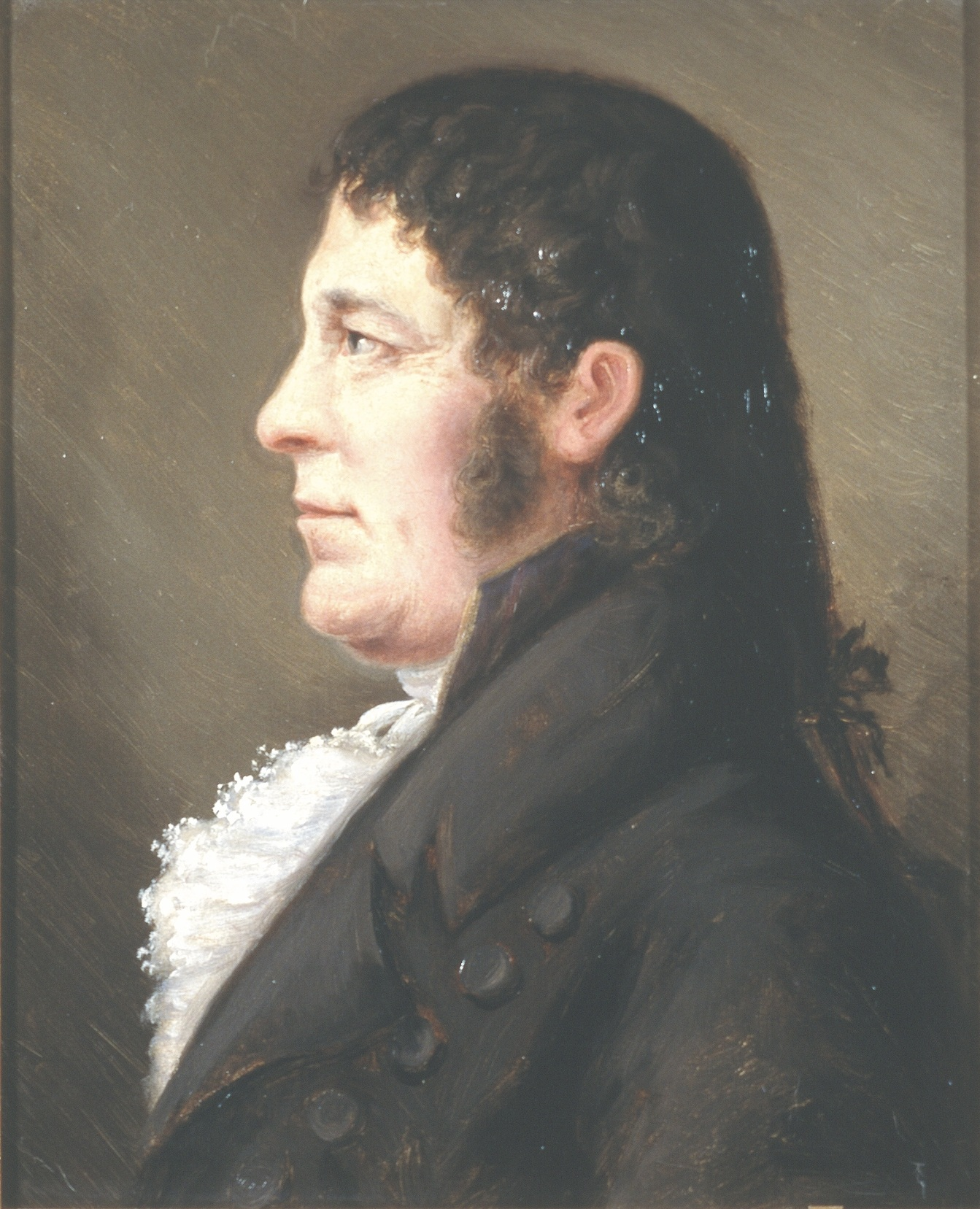 Jens Rolfsen (1765-1819), Norwegian tradesman. Represented Bergen at the Norwegian Constituent Assembly in 1814.